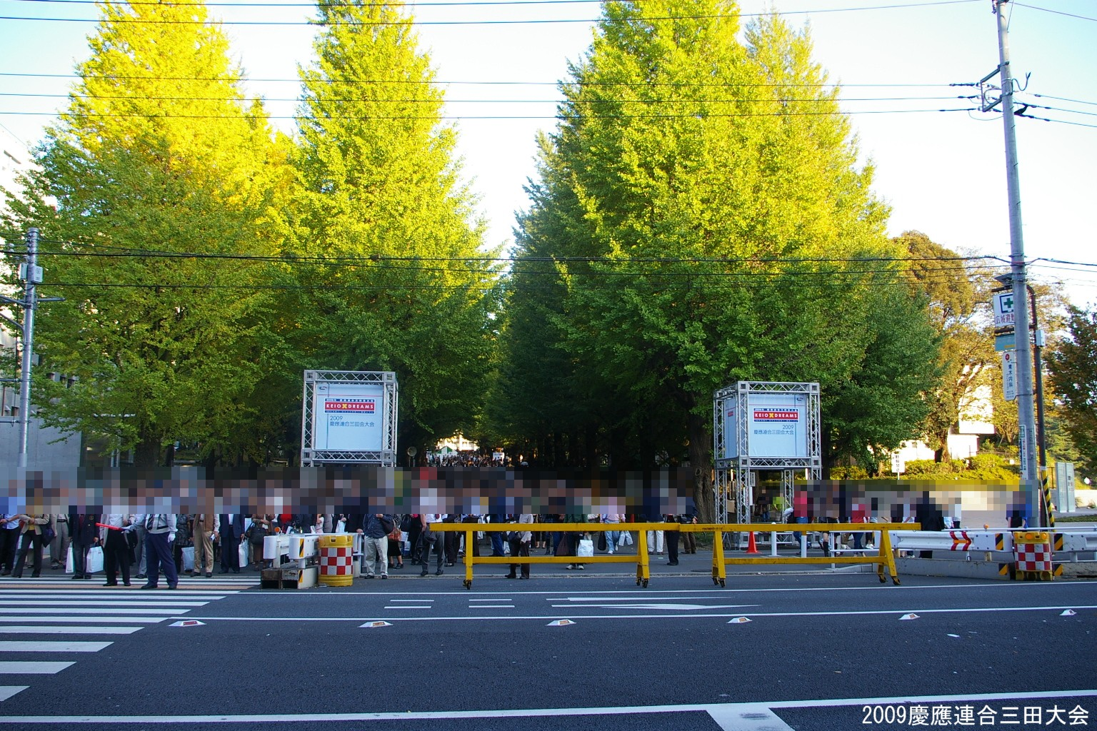 2009.5日本国内で塾生 (talk)が撮影。